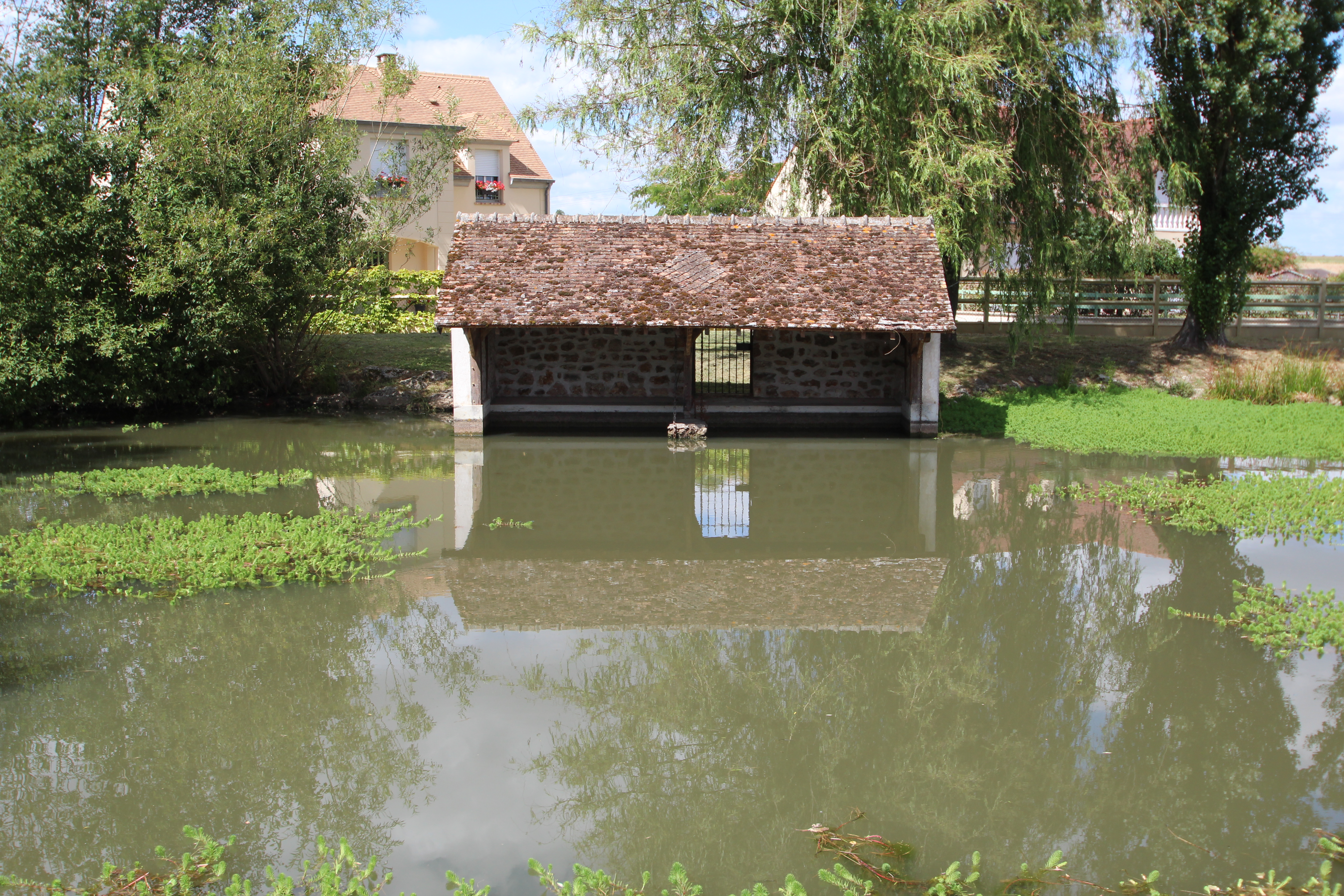 Le Cormier hamlet in Limours, France. Object location48° 37′ 46.67″ N, 2° 03′ 29.23″ E This picture as been uploaded as part of L'Été des régions 2016.